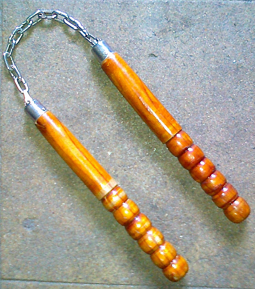 The nunchaku is a traditional Okinawan martial arts weapon consisting of two sticks connected at one end by a short chain or rope.